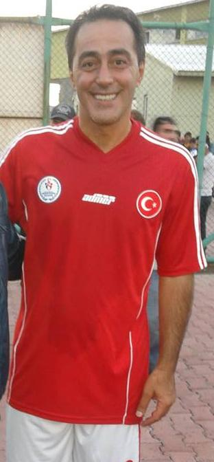 Ogün Temizkanoğlu, a former Turkish international footballer and manager.